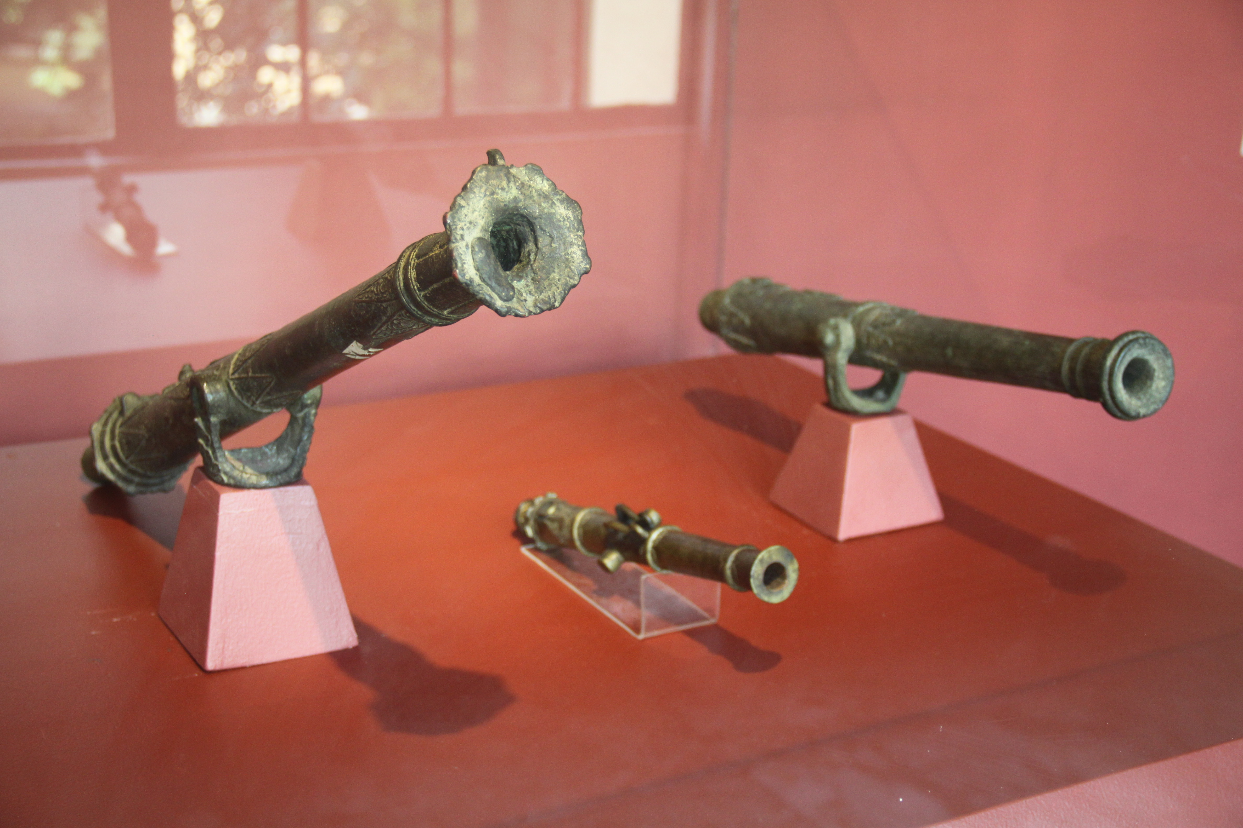 Lantaka Swivel Gun Display, Museum of the Filipino People, Rizal Park, Manila, Philippines. Complete indexed photo collection at .